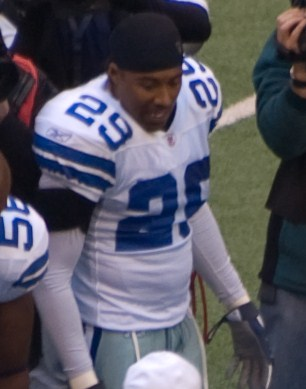 Keith Davis, safety for Dallas Cowboys, during pregame coin toss.